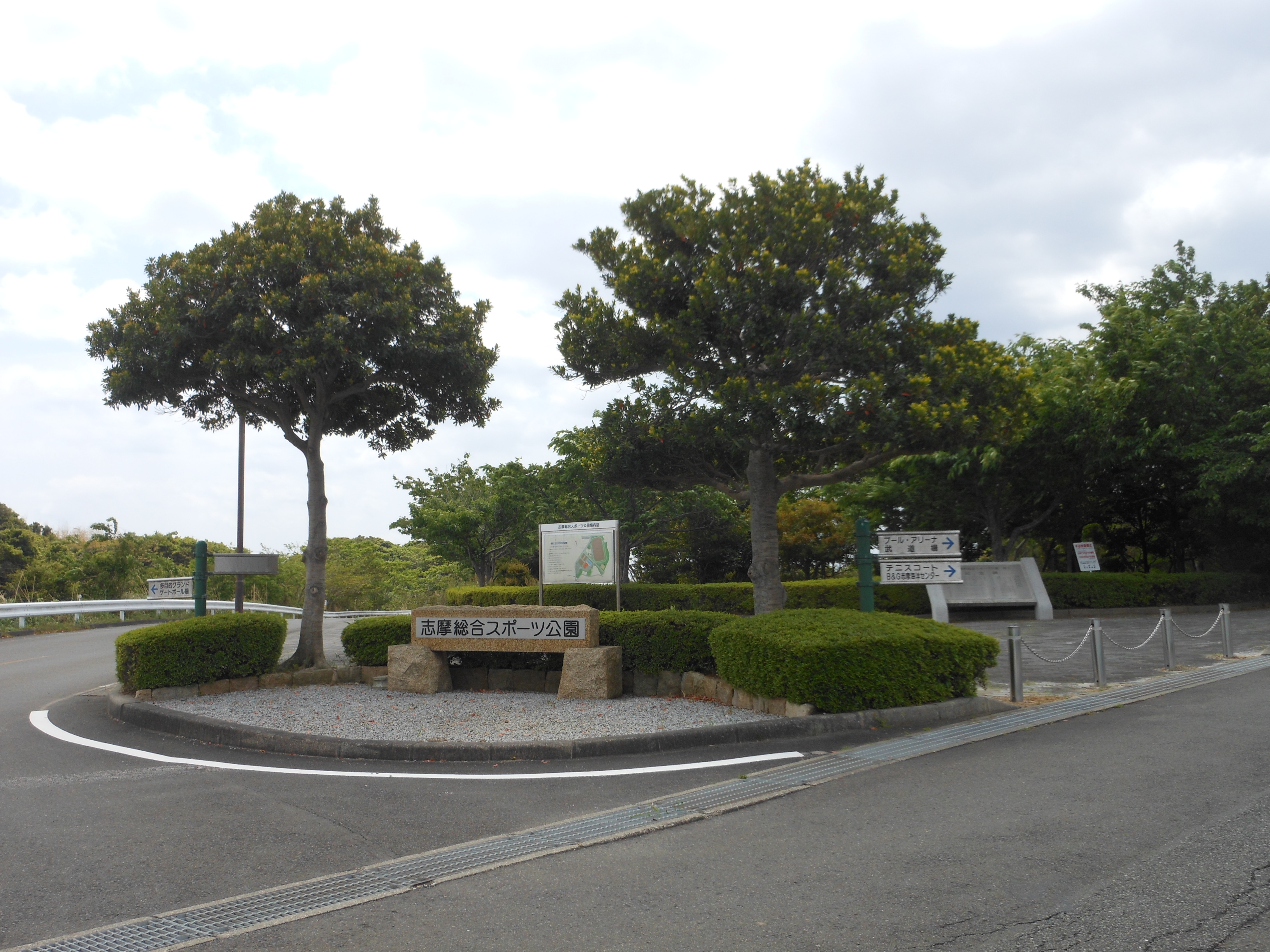 This is an entrance of Shima City Shima General Sports Park, Which is located in Shima, Mie ,Japan.